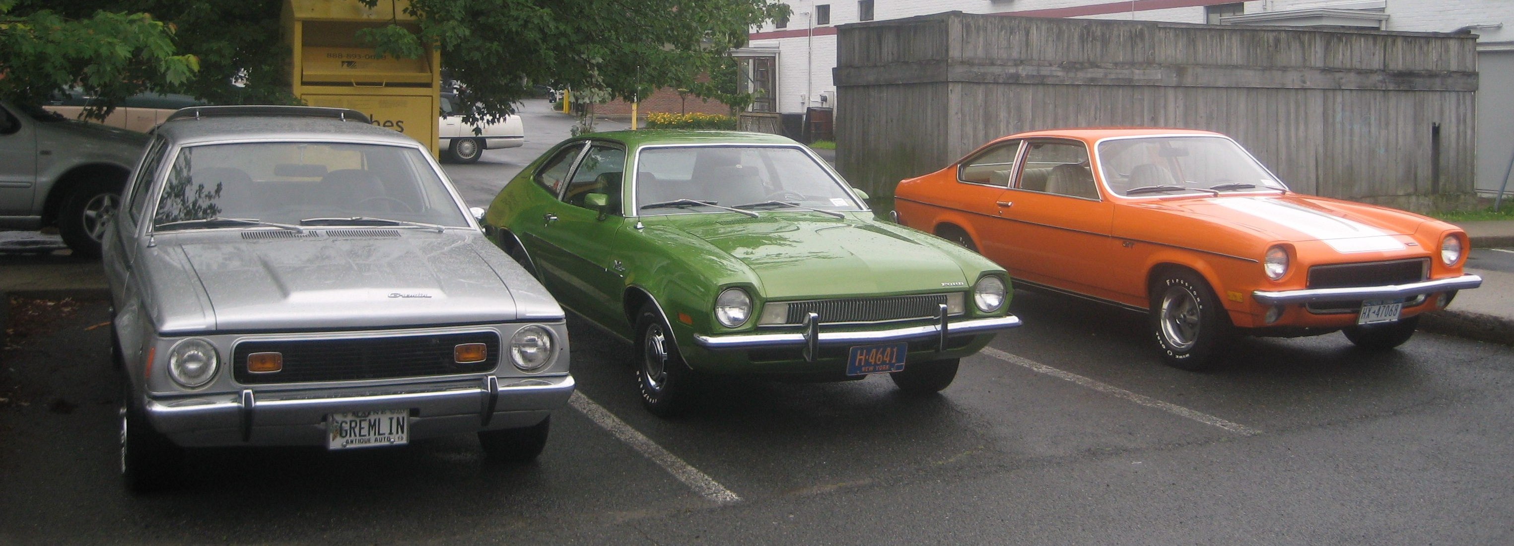 My Vega GT with Pinto Runabout and Gremlin X in Massachusetts 2010 for Motor Trend Classic photoshoot.